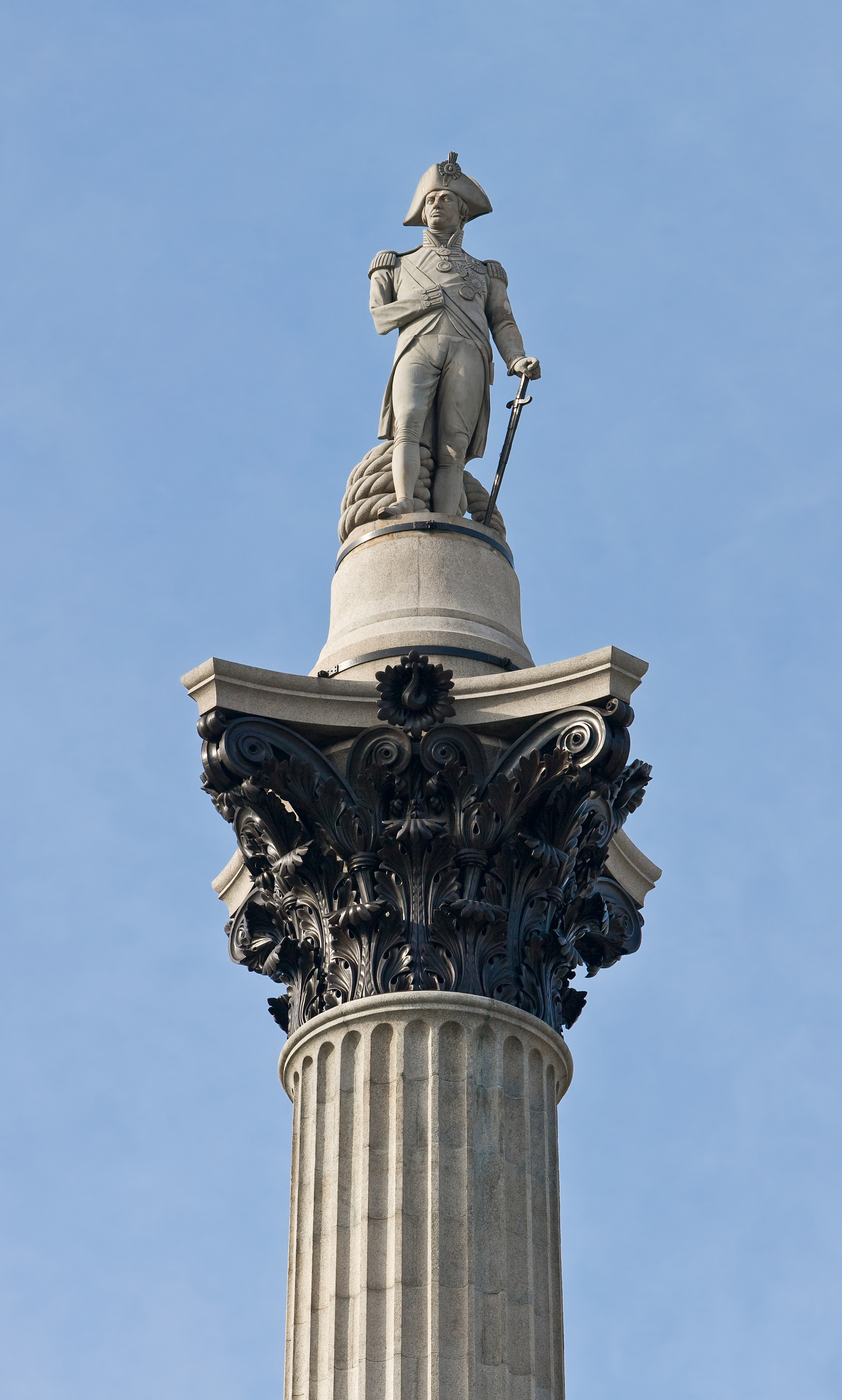 Lord Nelson at the top of Nelson's Column in Trafalgar Square, London, England. Taken by myself with a Canon 5D and 70-200mm f/2.8L lens at 200mm.